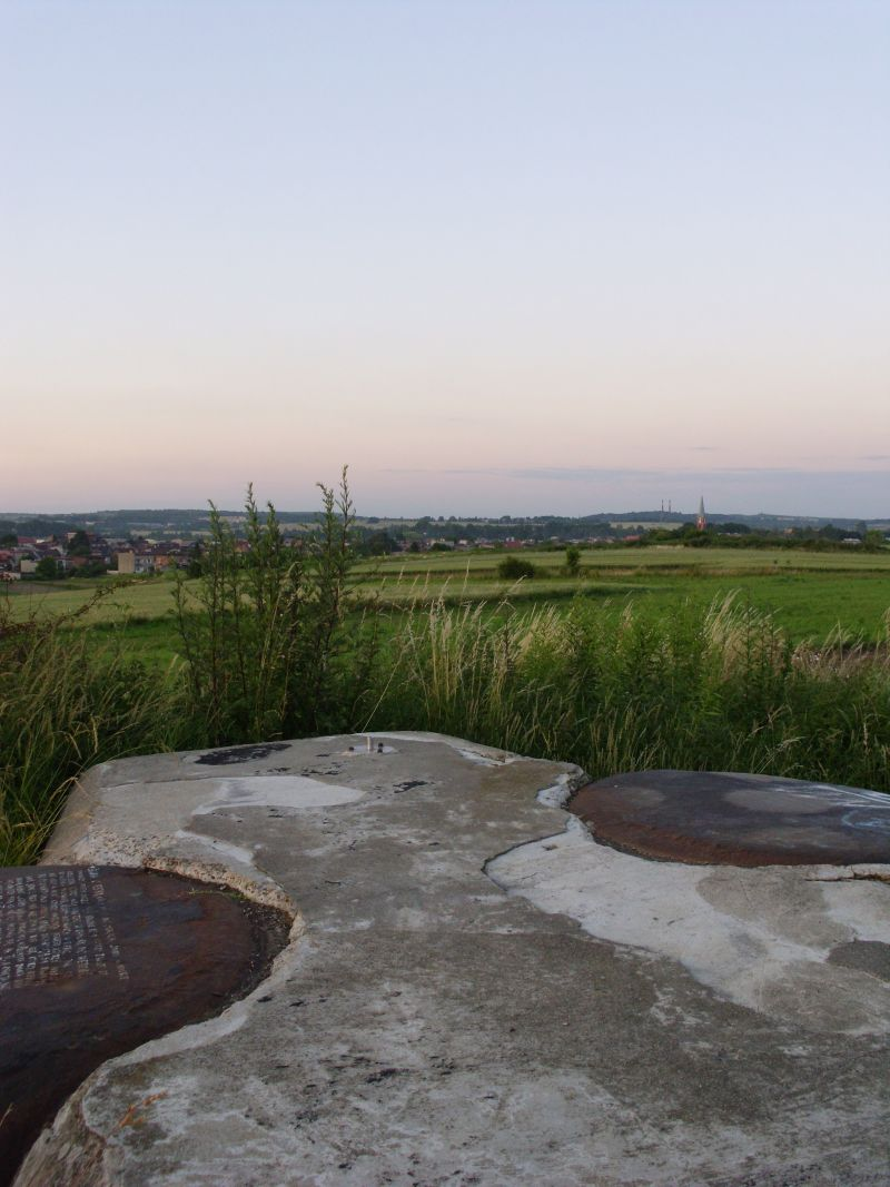 Untypical bunker from two domes. Only such an object in Silesia. In the background view on Dąbrówka Wielka.